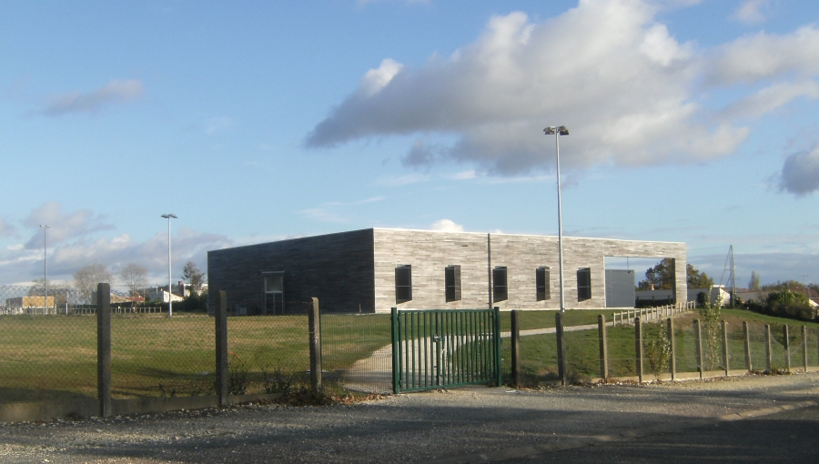 Boulodrome de la Casse aux Prêtres